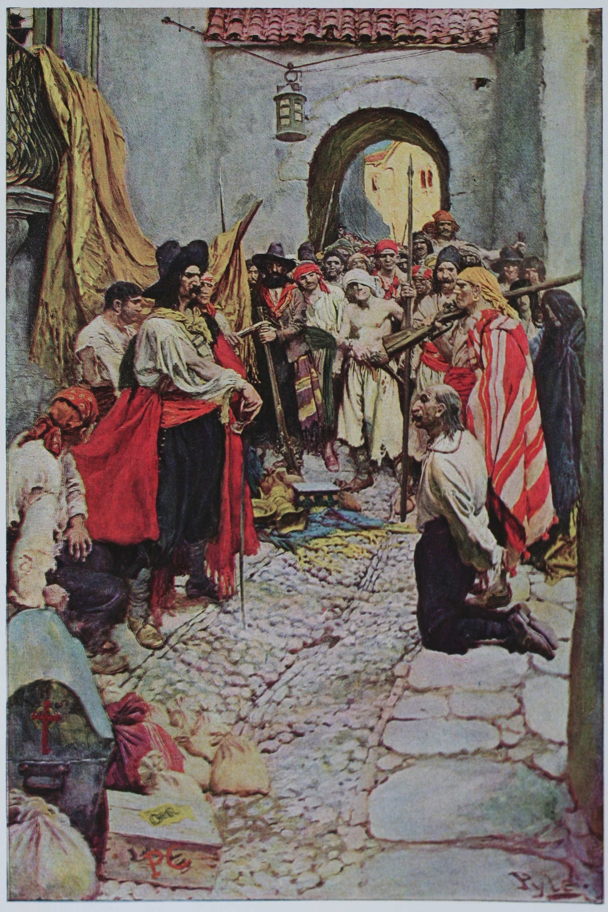 Extorting Tribute from the Citizens: illustration of pirates' taking over a city